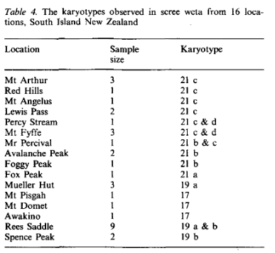 Locations of Deinacrida connectens karyotype races as described in "Colour, allozyme and karyotype variation show little concordance in the New Zealand Giant Scree Weta Deinacrida connectens (Orthoptera: Stenopelmatidae)".